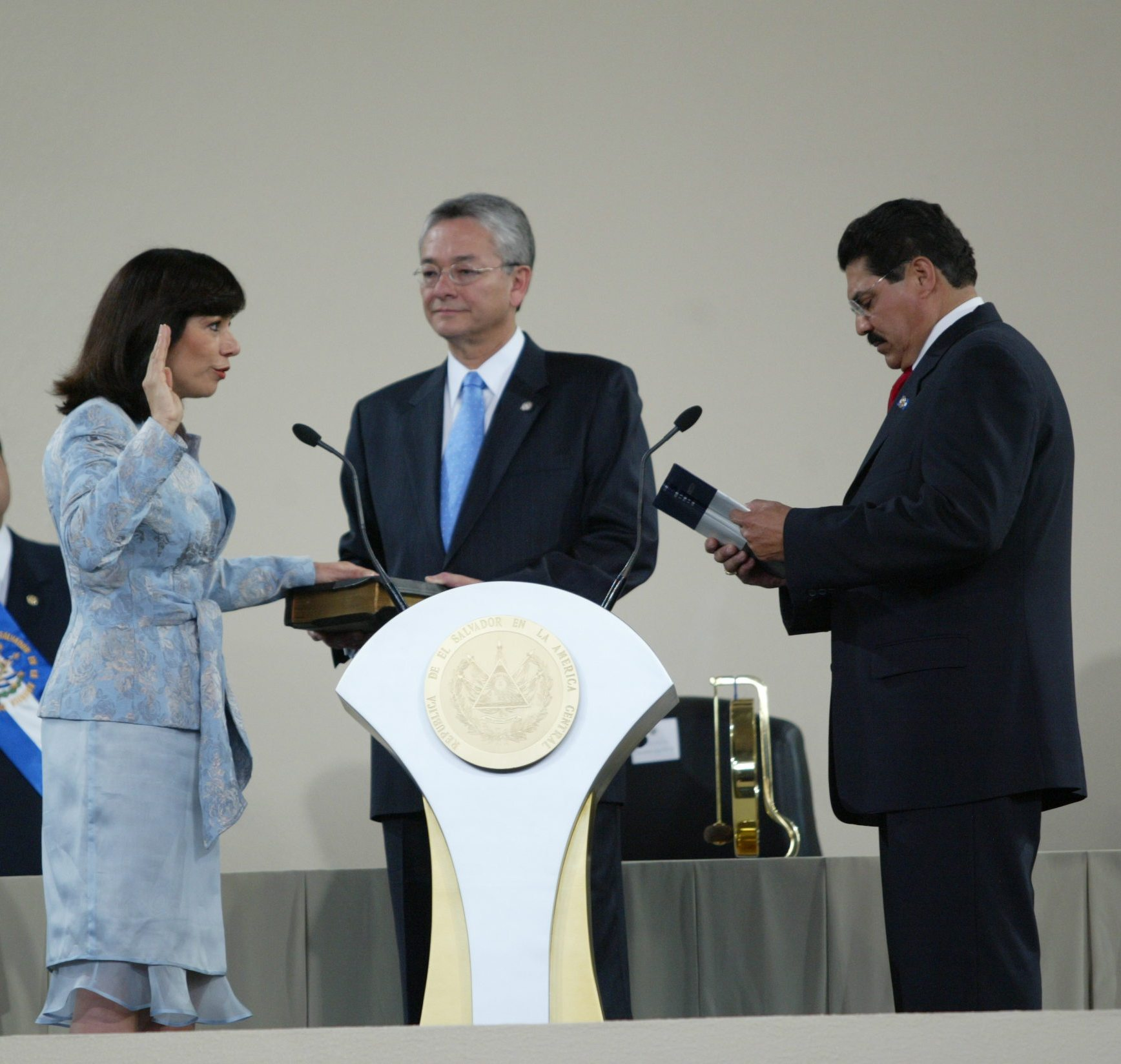 Ana Vilma de Escobar Albanez, Salvadoran politician and former Vice President.